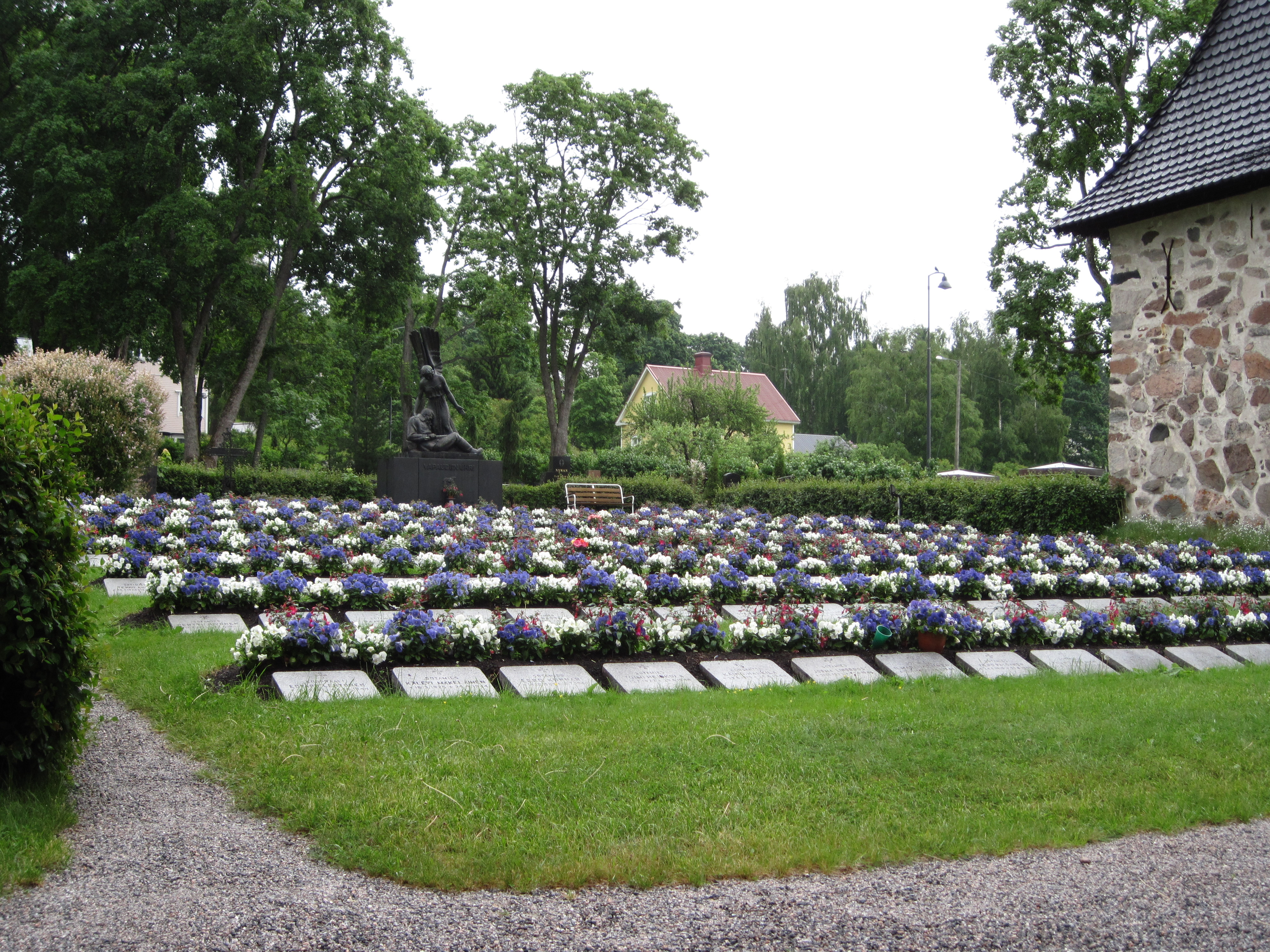 Military cemetary at Perniö Church in Salo, Finland